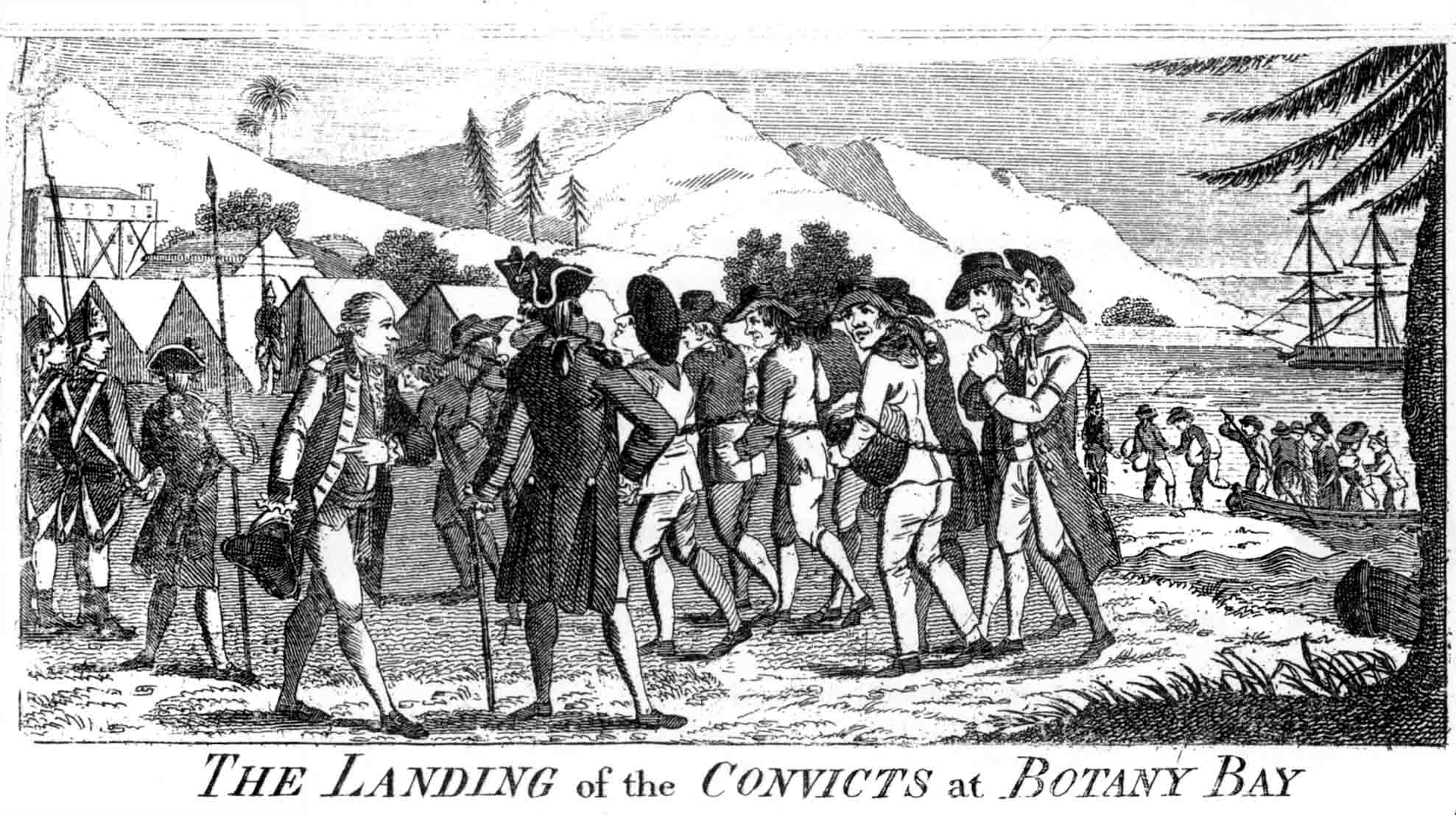 "Landing of Convicts at Botany Bay" from Captain Watkin Tench's A NARRATIVE OF THE EXPEDITION TO BOTANY BAY. First published in 1789